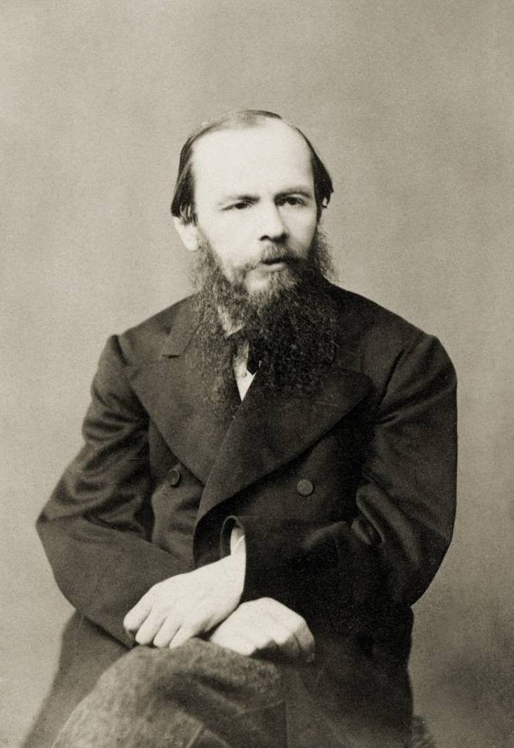 Dostoevsky in 1876.